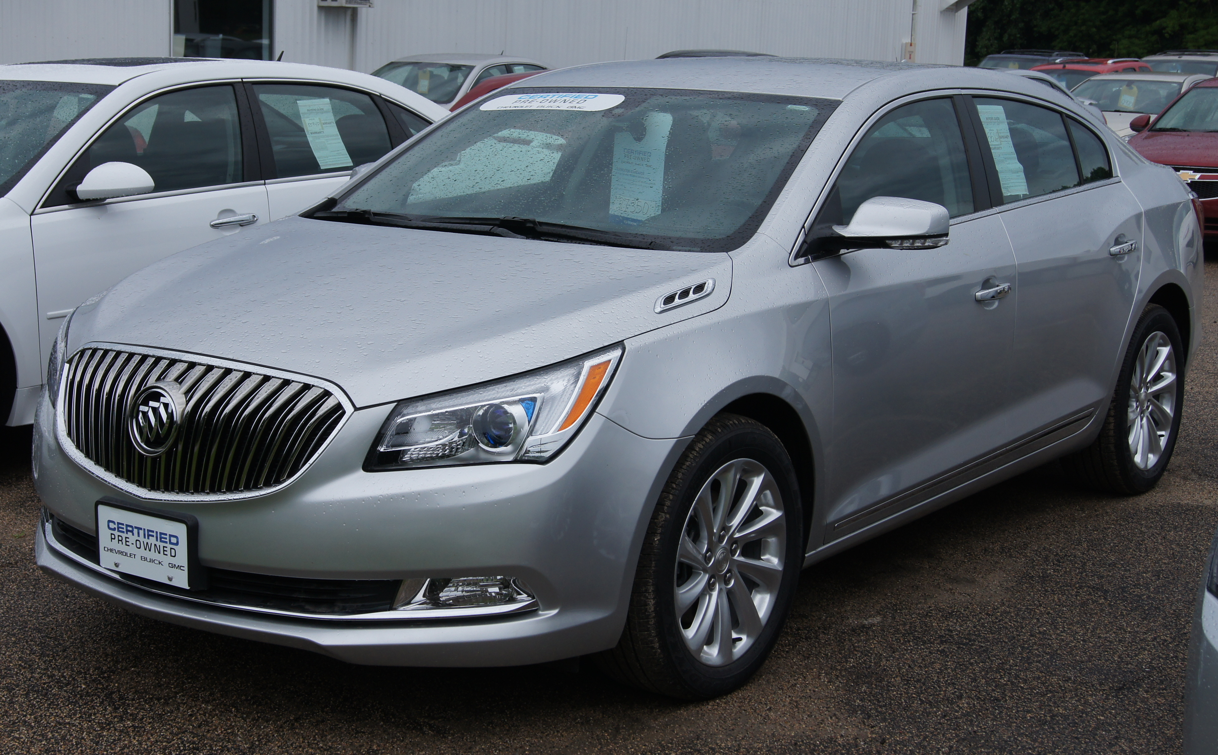 I bought my 2005 Dodge Magnum RT from Walser Chrysler Dodge in Hopkins. It came with free oil changes for life. I used to have relatives near the dealership that I would visit. They have all moved away, so now I just try to coordinate some car spotting for the trip. More Car Pictures